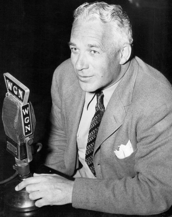 Publicity photo of broadcaster Norman Ross, Sr. (Son was also a broadcaster.) to promote the broadcasts of college football games on WGN Radio, Chicago. Ross was assigned to broadcast the games in addition to his other announcing duties.